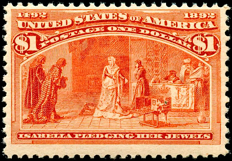 US Postage stamp, The first US commemorative stamp, issue of 1893, 1$, salmon